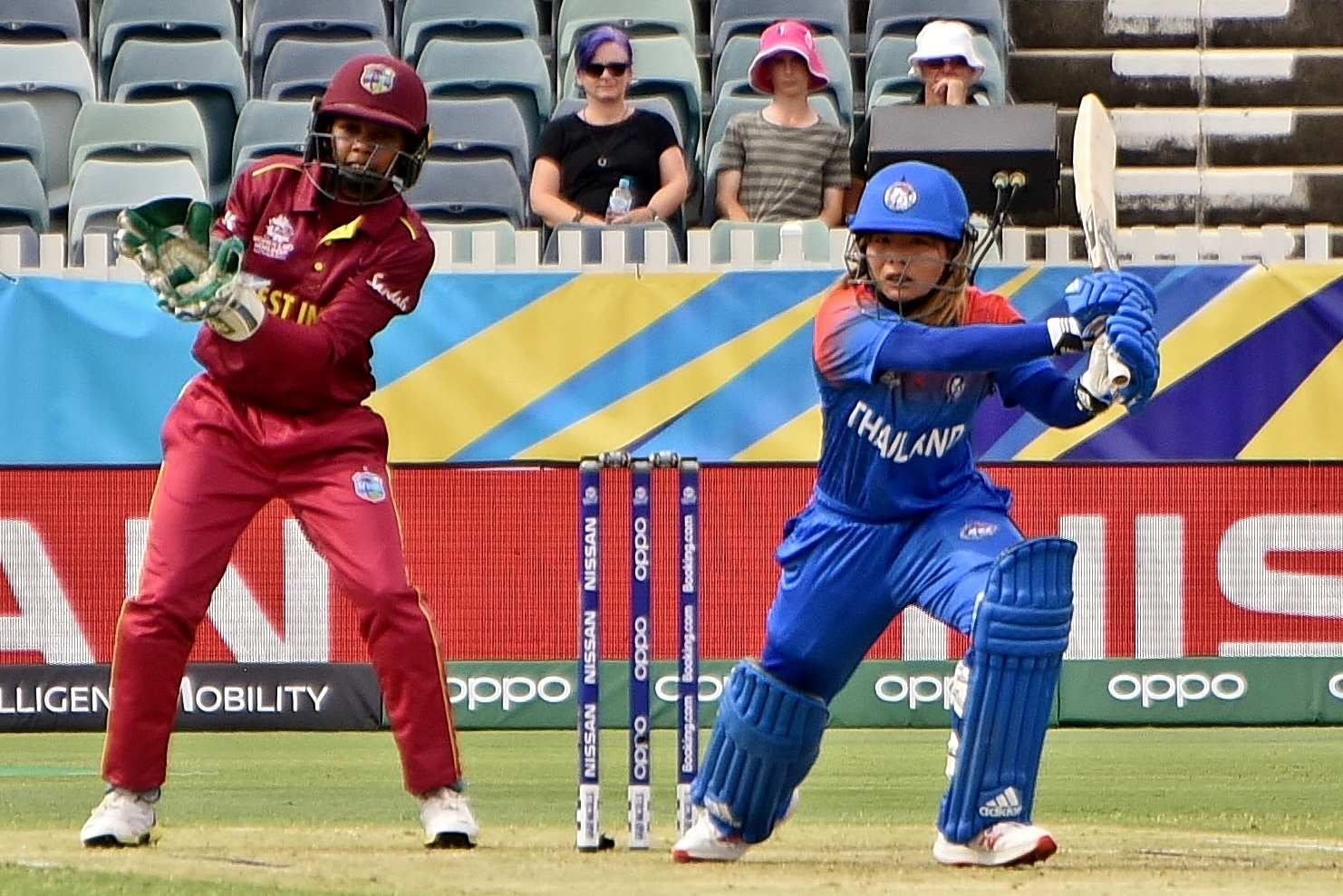 Naruemol Chaiwai batting for Thailand against the West Indies during their 2020 ICC Women's T20 World Cup match at the WACA Ground in Perth, Australia. The wicket-keeper is Shemaine Campbelle